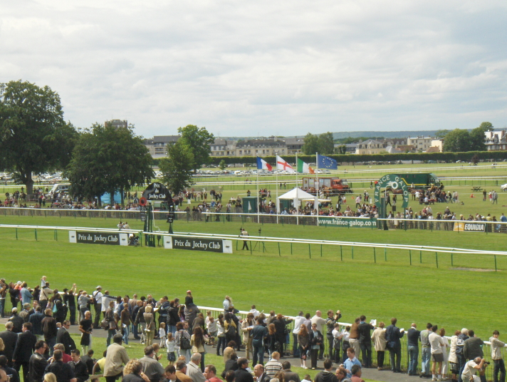 Finishline Chantilly Racecourse